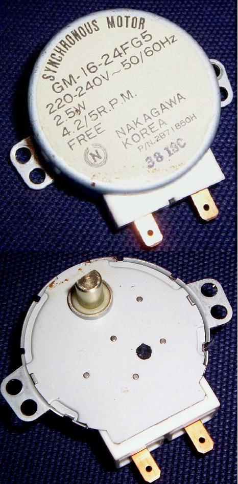 Synchronous motor with gearbox from microwave oven (diameter 50mm)